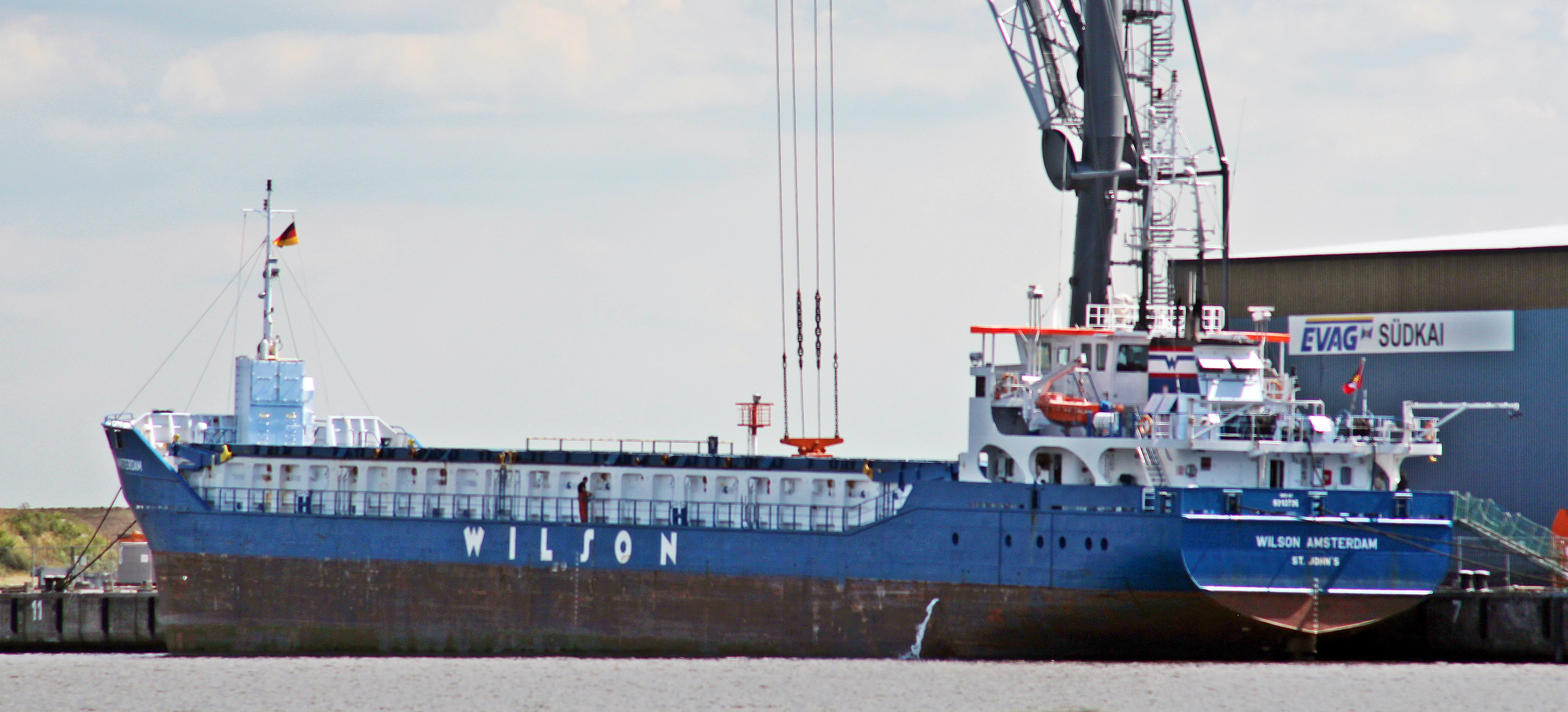 Motor coaster Wilson Amsterdam at Port of Emden